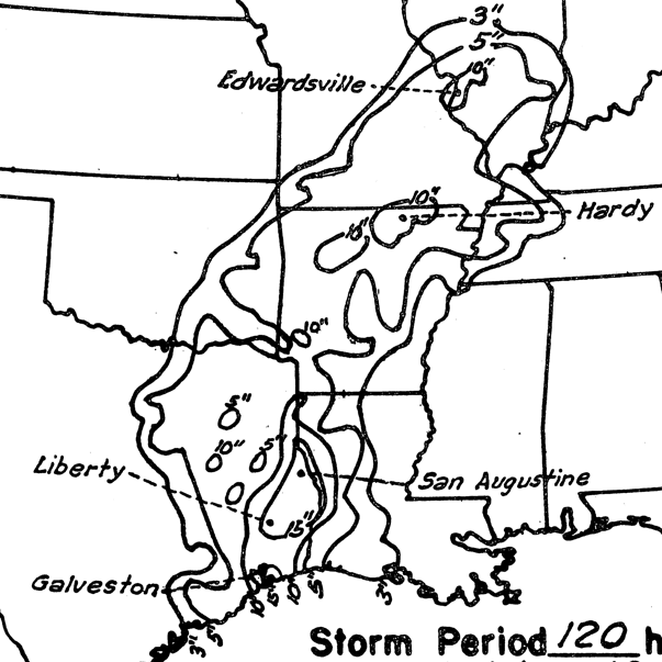 August 16-21, 1915 precipitation due to the Galveston TX hurricane